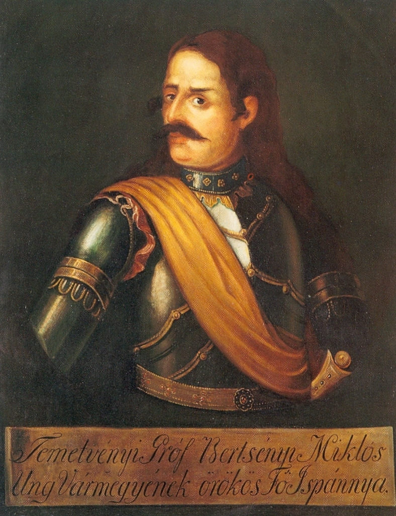 Miklós Bercsényi